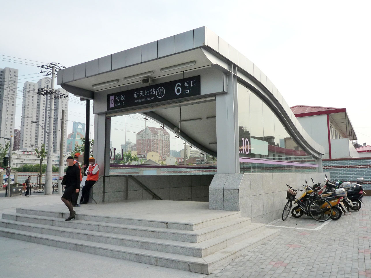 Shanghai subway Xintiandi station gate No.6